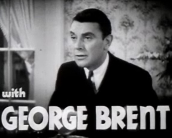 Cropped screenshot of George Brent from the trailer for the film Housewife